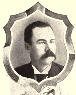 Cropped photo of Thomas J. Callan, Medal of Honor recipient. This was first published in 1902 in Deeds of valor; how America's heroes won the Medal of Honor, Volume II, page 224.